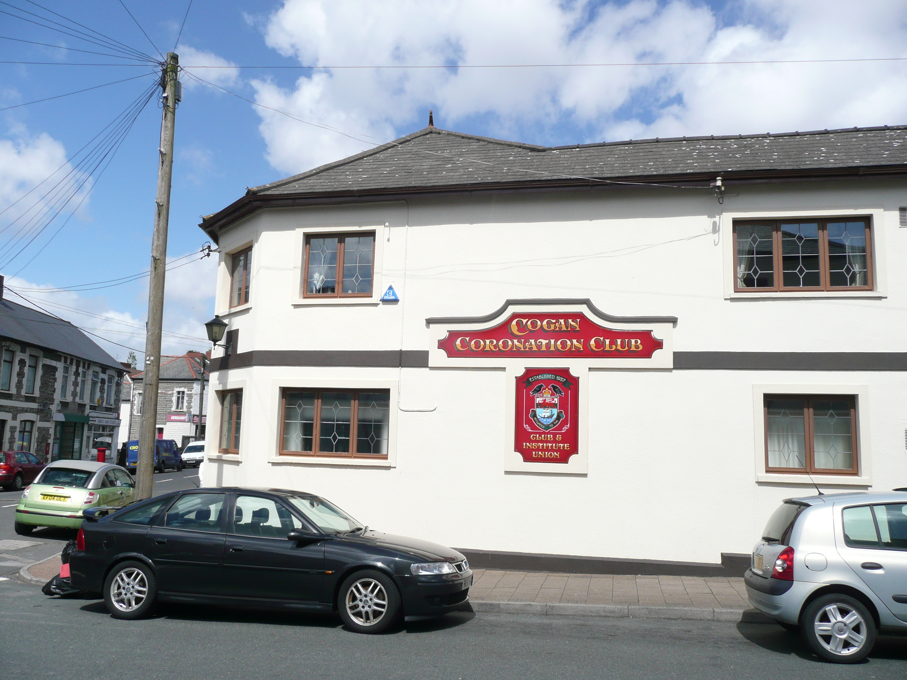 Cogan Coronation Club near Penarth South Wales